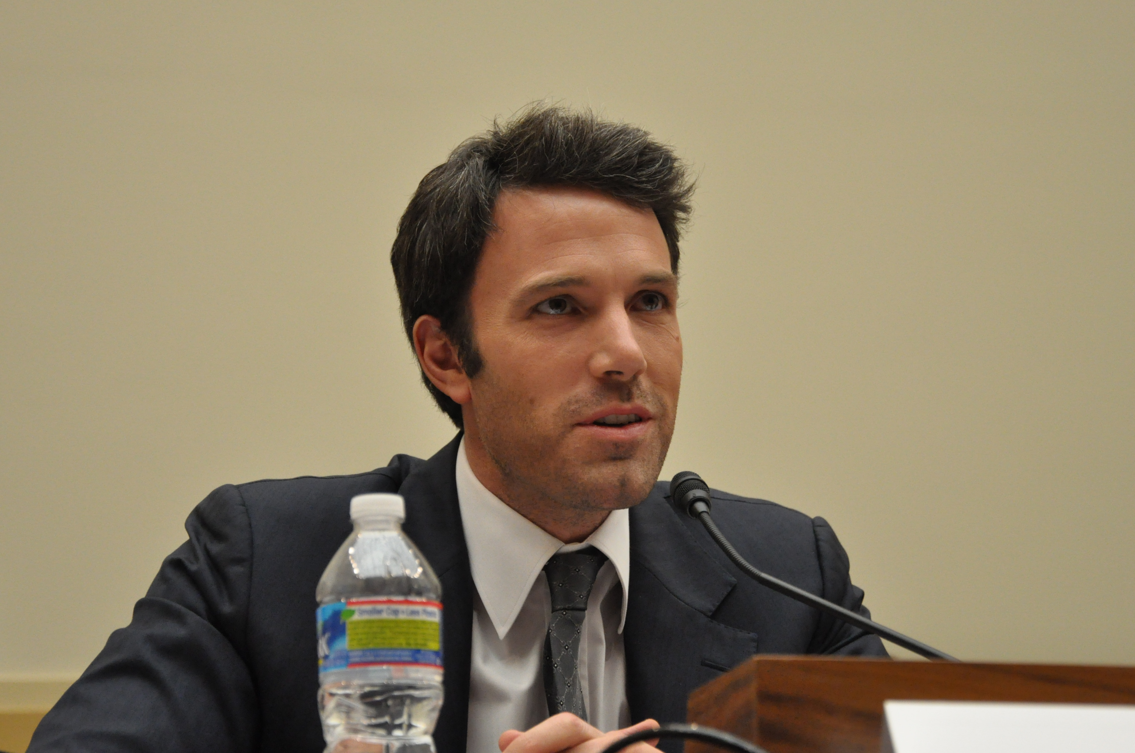 Amanda Bossard/Medill News Service